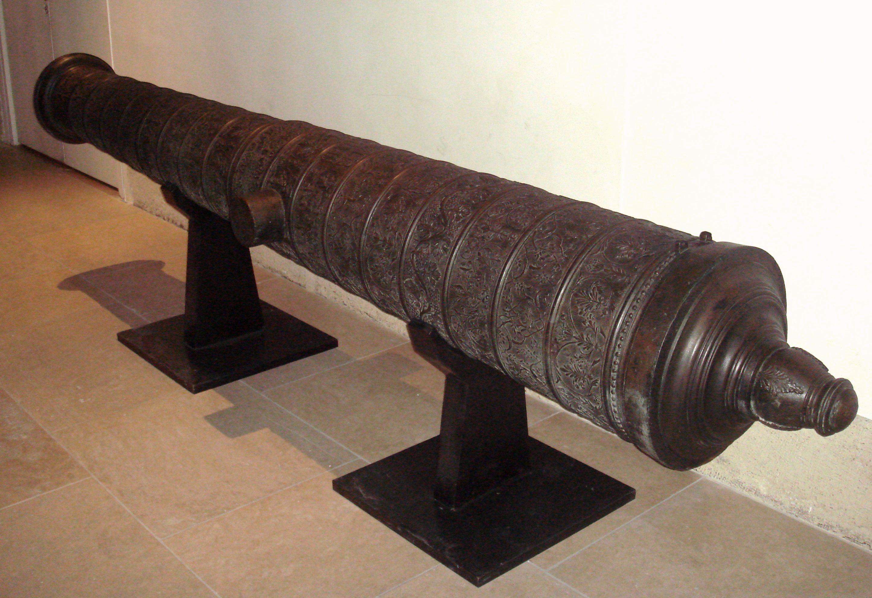 Ottoman_cannon_end_of_16th_century_length_385cm_cal_178mm_weight_2910_stone_projectile_founded_8_October_1581_Alger_seized_1830.